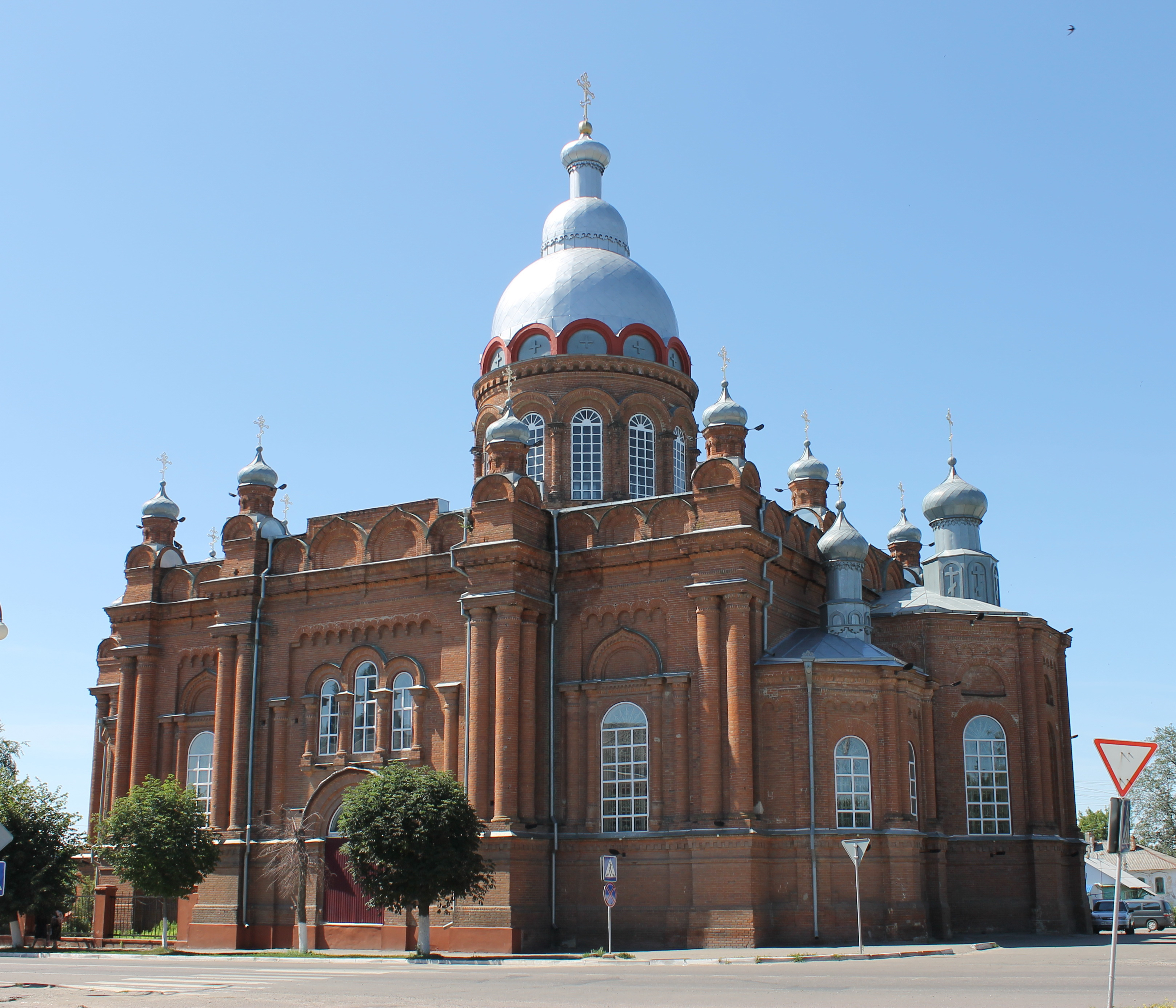 Trinity Cathedral in Obojan